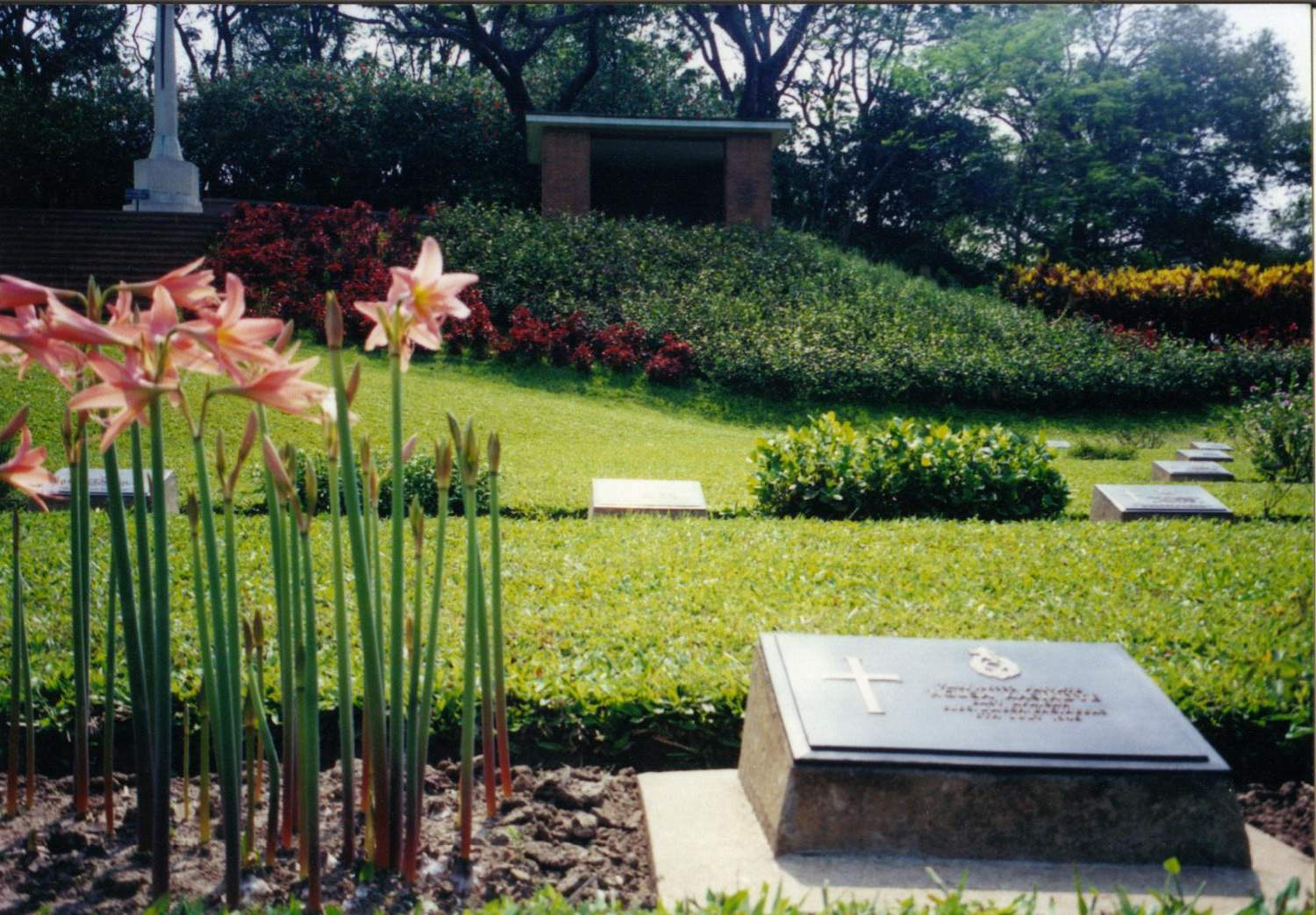 The World War II Cemetery at Moinamoti near Comilla, Bangladesh. Most soldiers resting here are identified. However, this grave is marked to be that of an unknown soldier.